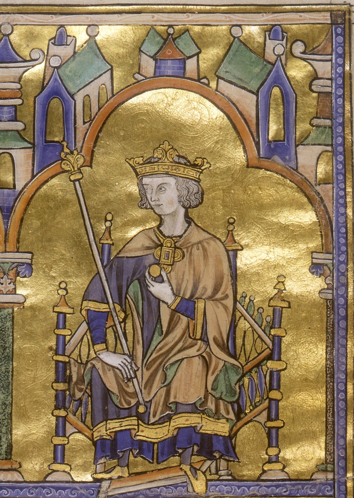 Saint Louis